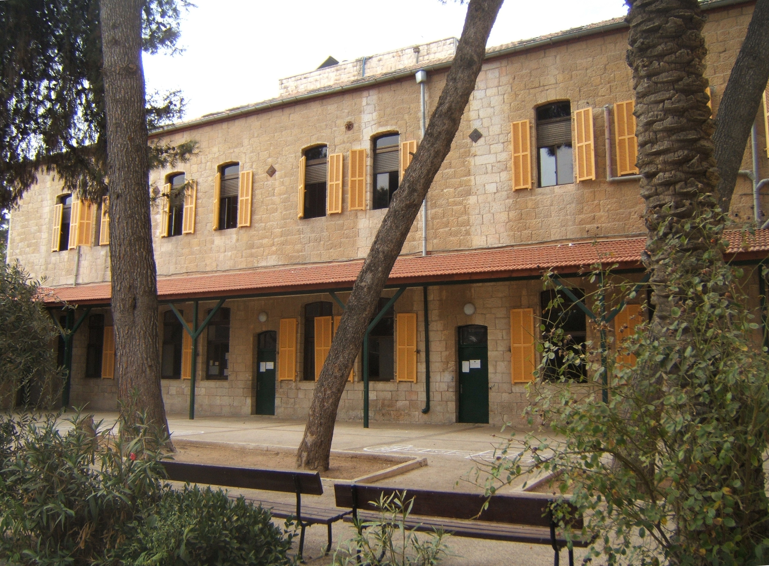 Saint Joseph de l'Apparition, Street of Prophets, Jerusalem